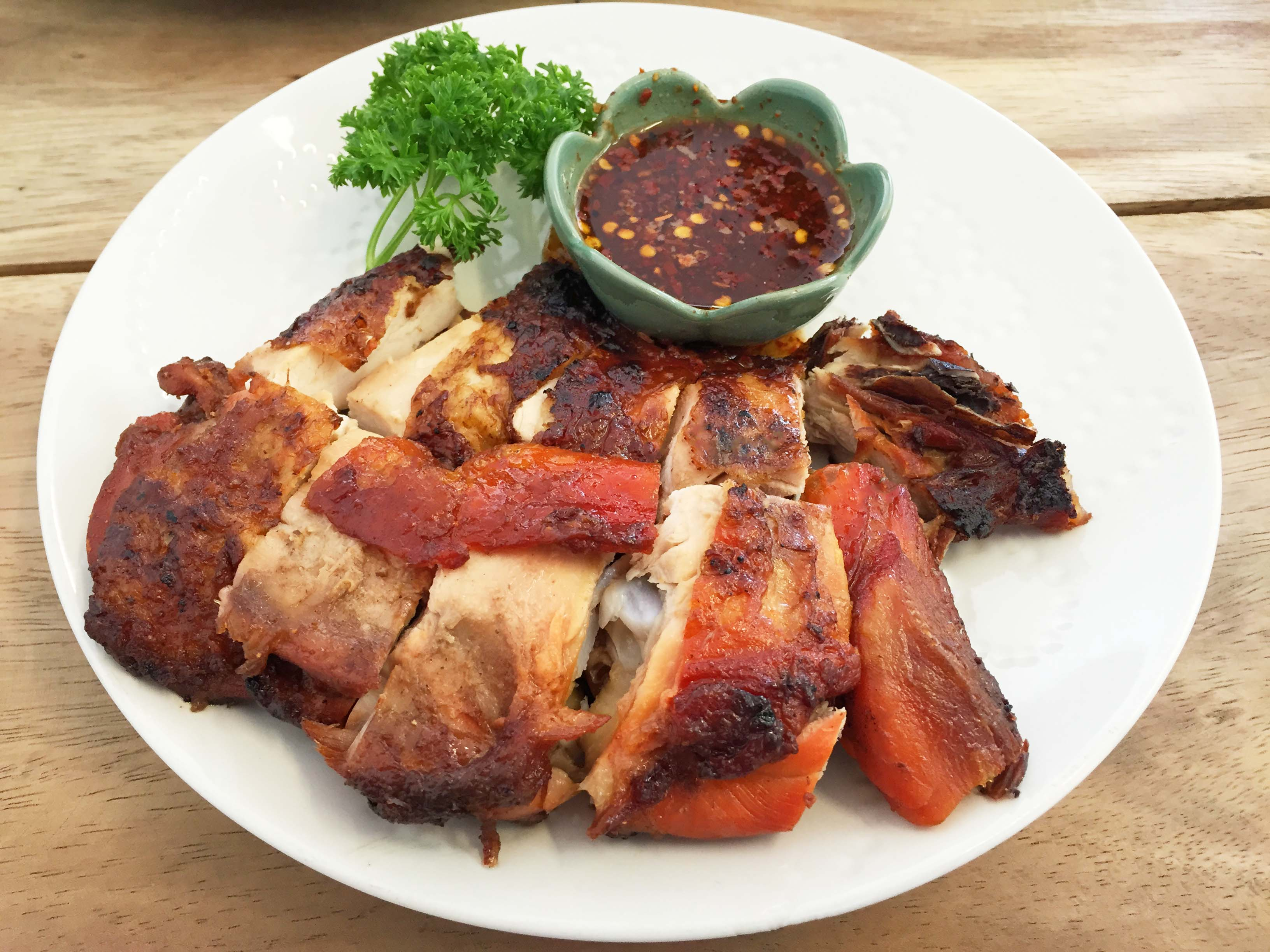 BBQ Chicken